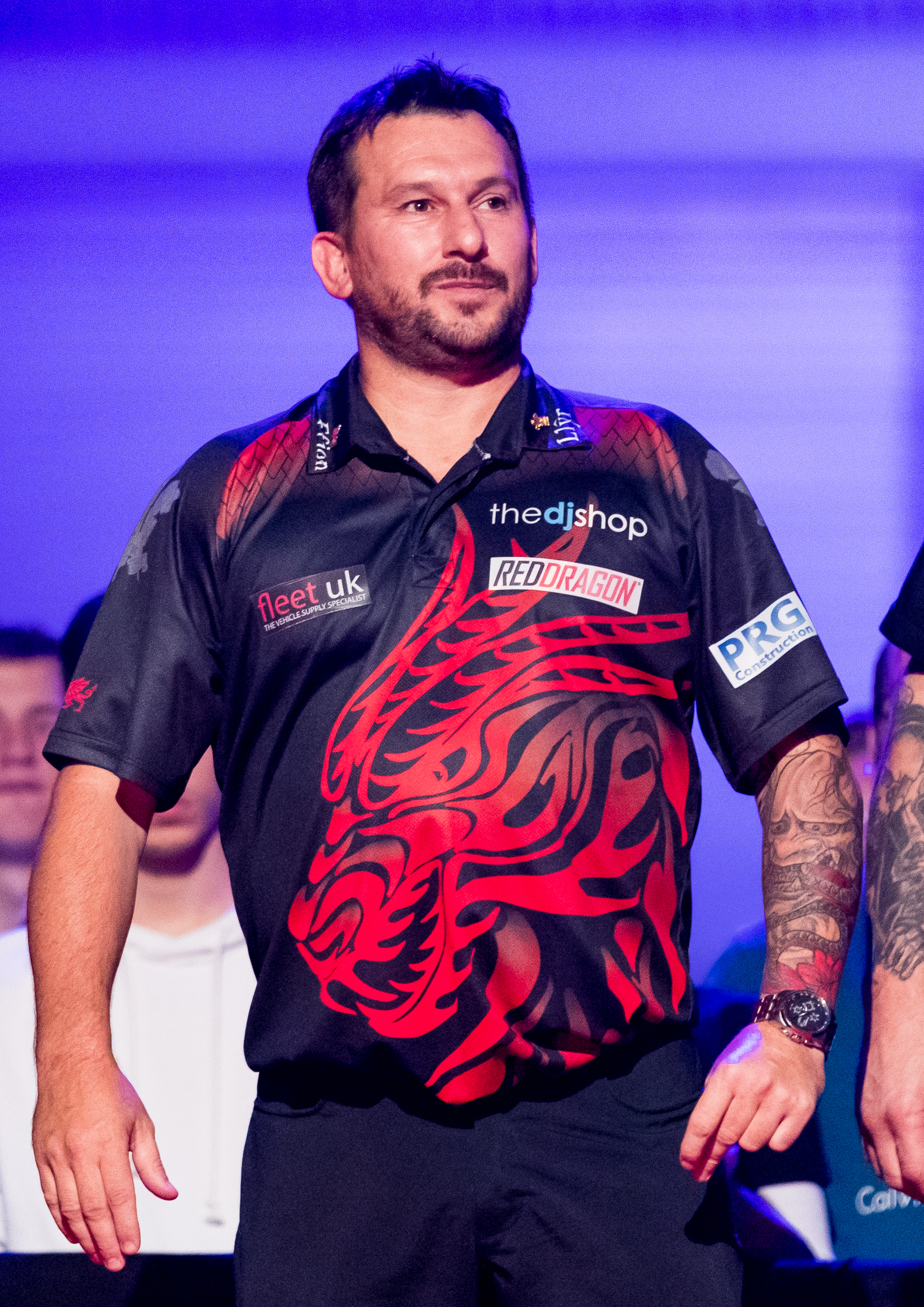 Jonny Clayton 4:6 James Wade during PDC Europe Darts Matchplay at Maimarkthalle, Mannheim, Baden-Württemberg, Germany on 2019-09-08, Photo: Sven Mandel